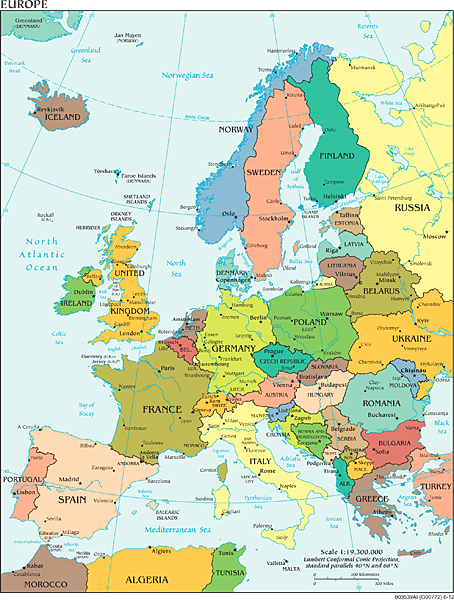 "Political Europe" from the Regional and World Maps section of the CIA World Factbook website.